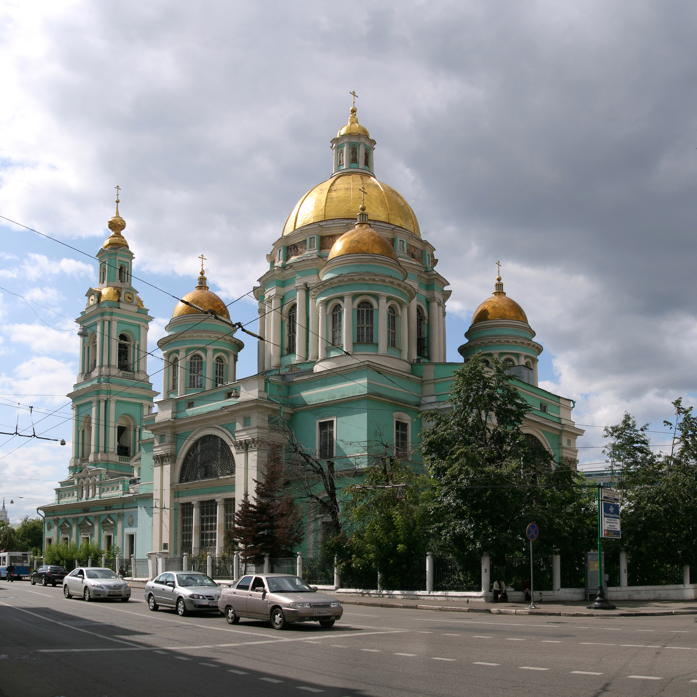 Church of the Epiphany in Yelokhovo, Moscow